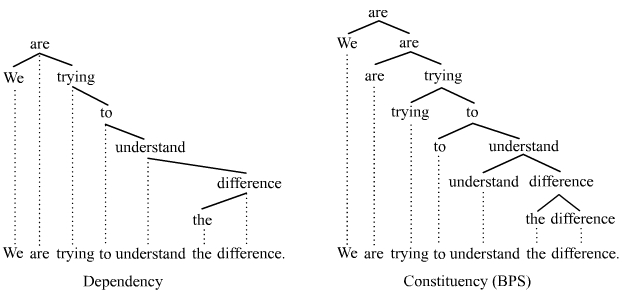 We are trying to understand the difference